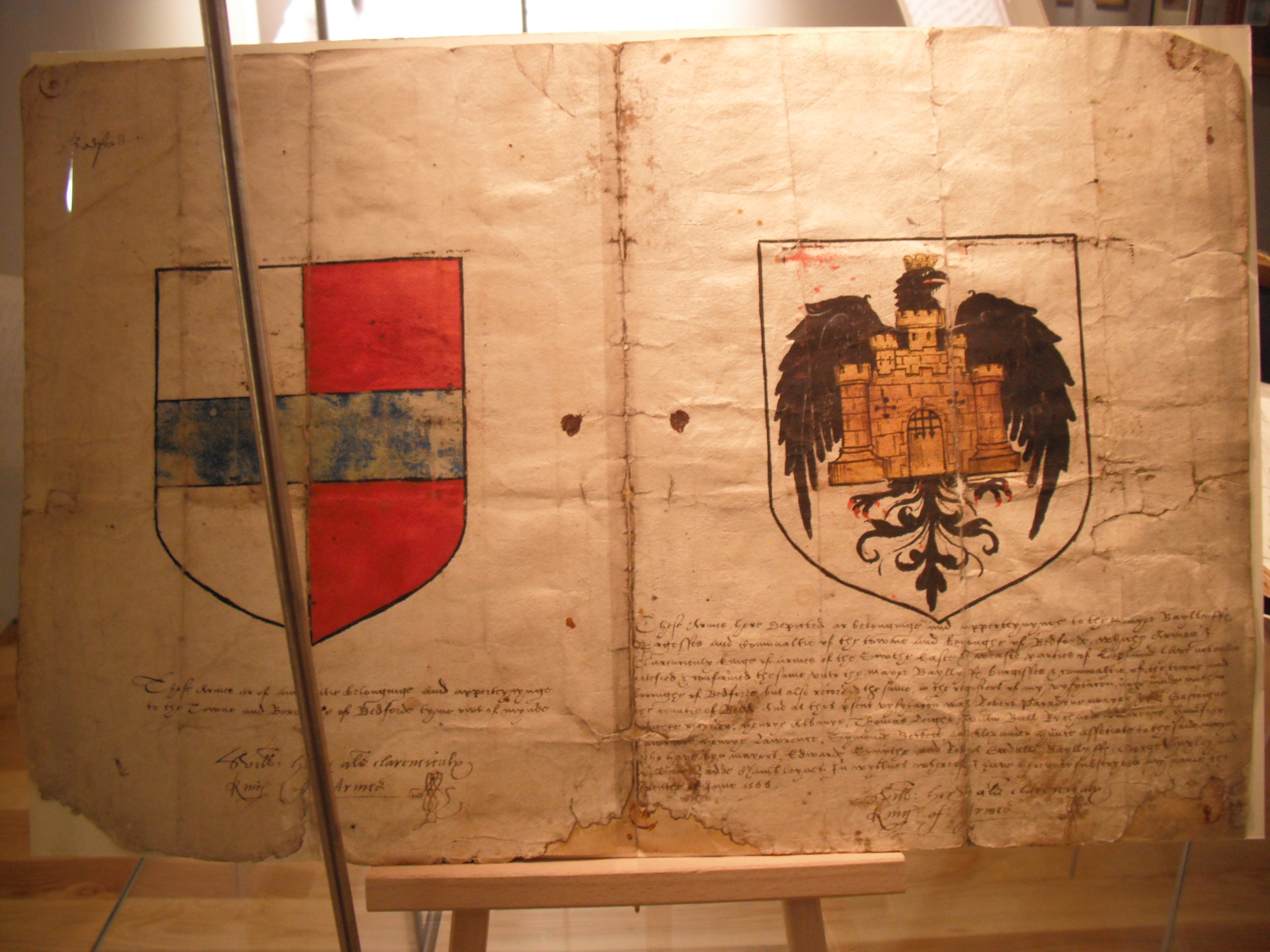 A document which seems to be the original grant of a coat of arms to Bedford, dated 1566, on display in the Higgins museum and gallery, Bedford.